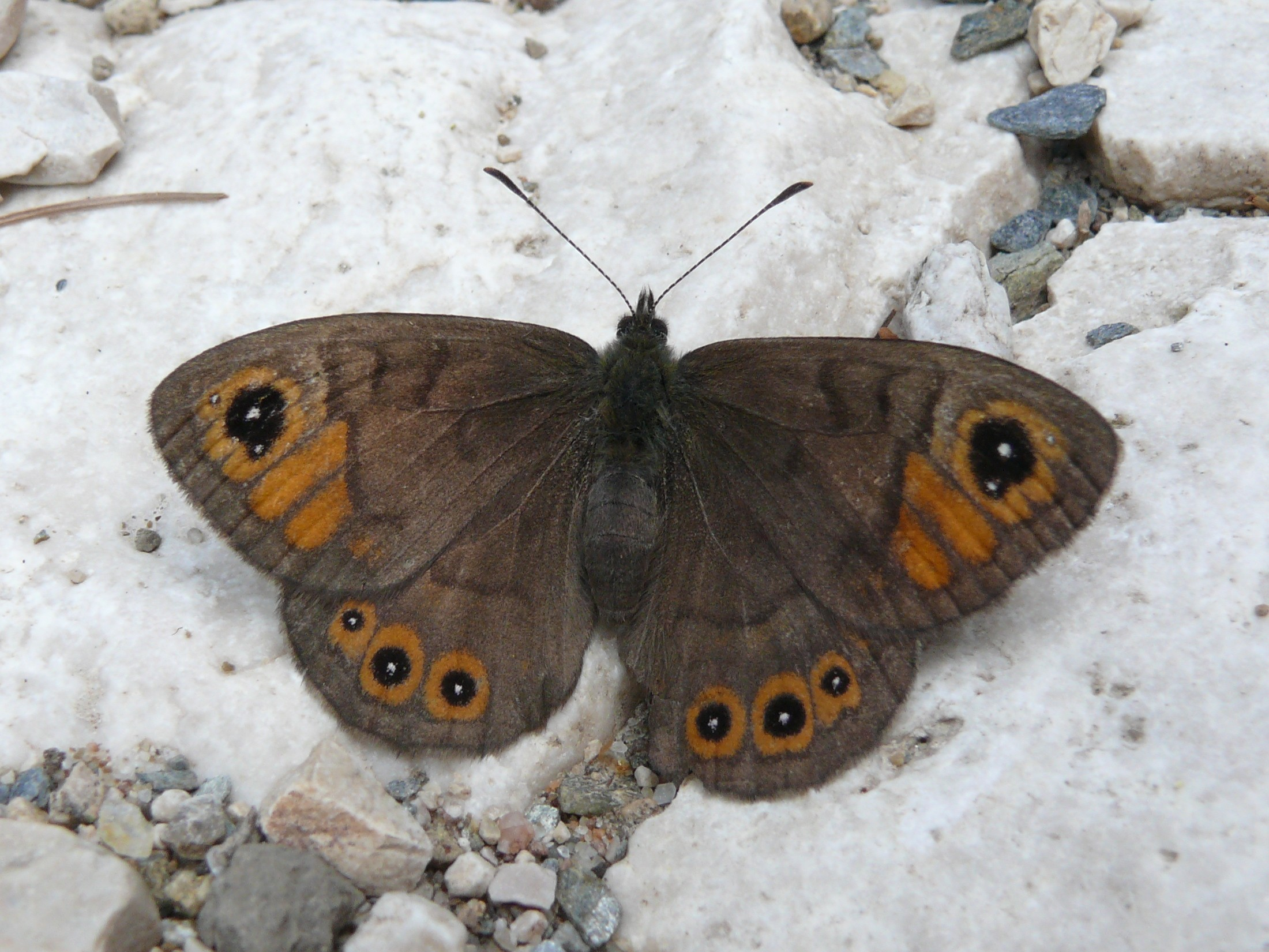 Northern Wall Brown, South Tyrol